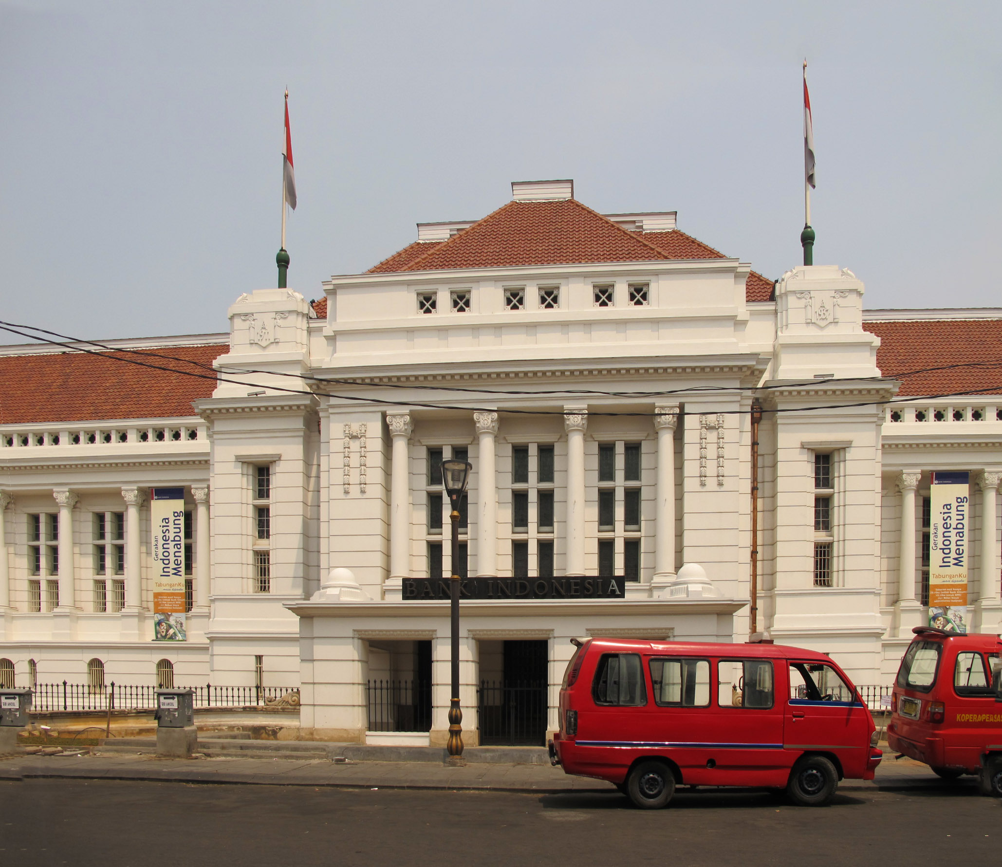 Bank Indonesia, formerly known as Javasche Bank. Jakarta, Indonesia